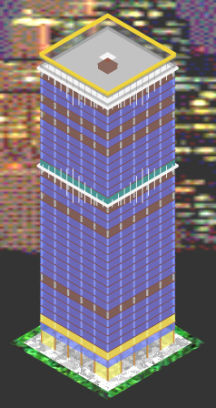 High-rise building equipped with Multi-Frequency Quieting Building System (MFQBS) [1]. The image was rendered by Valentin Shustov, CSUN.